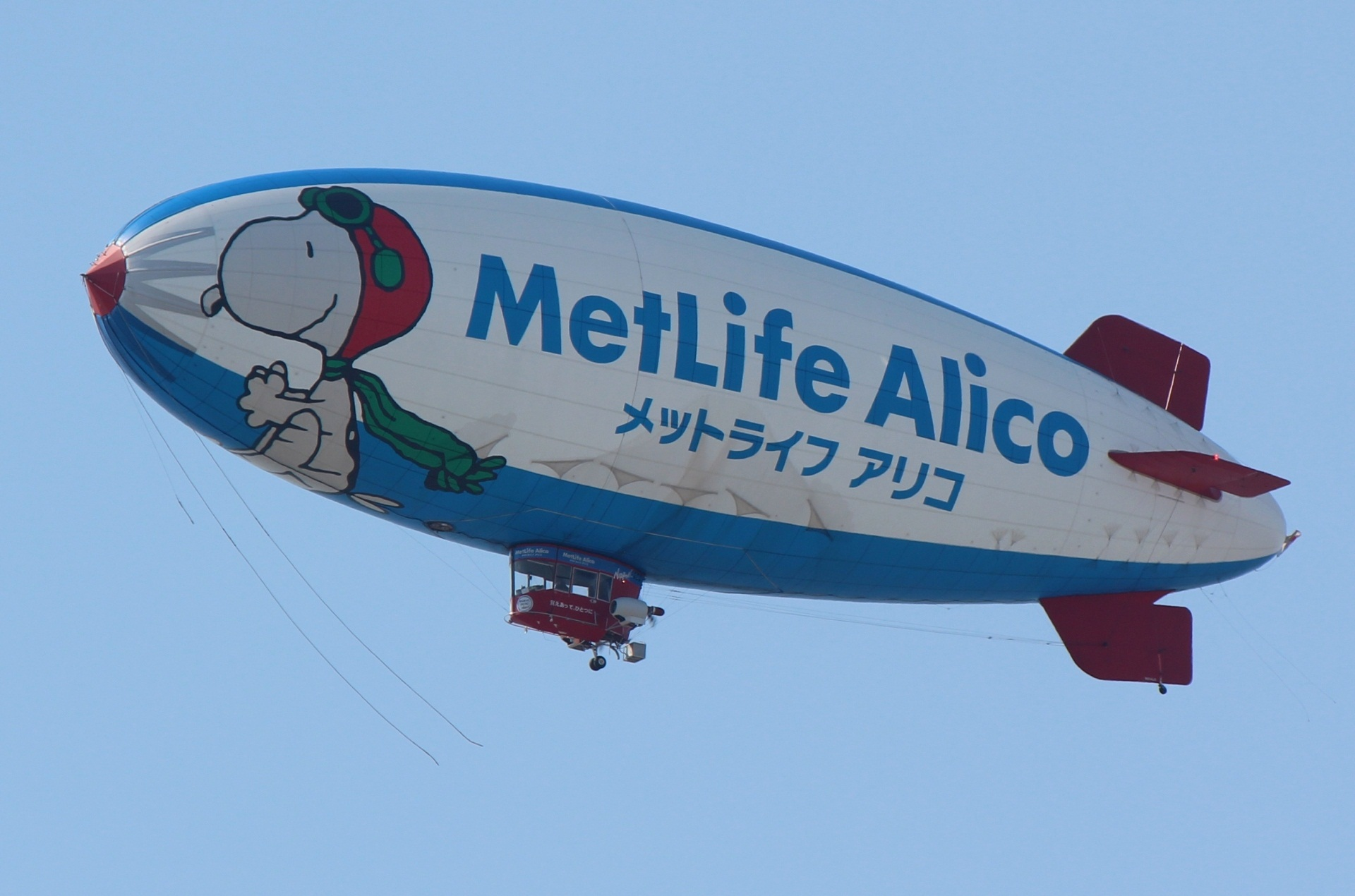 Airship with advertisement of MetLife Alico